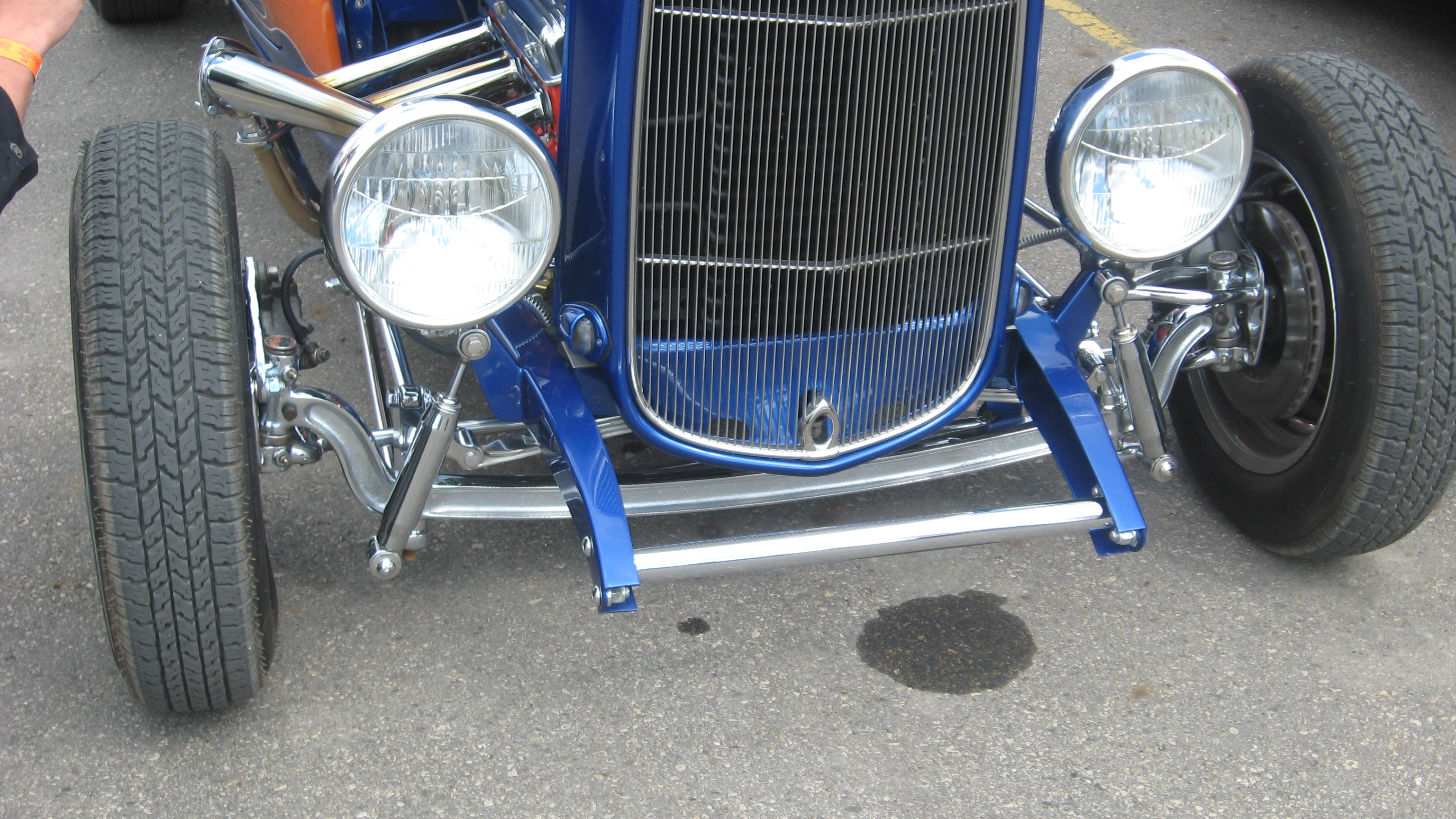 Suspension detail on '32 Ford, shot at local car show/swap meet.